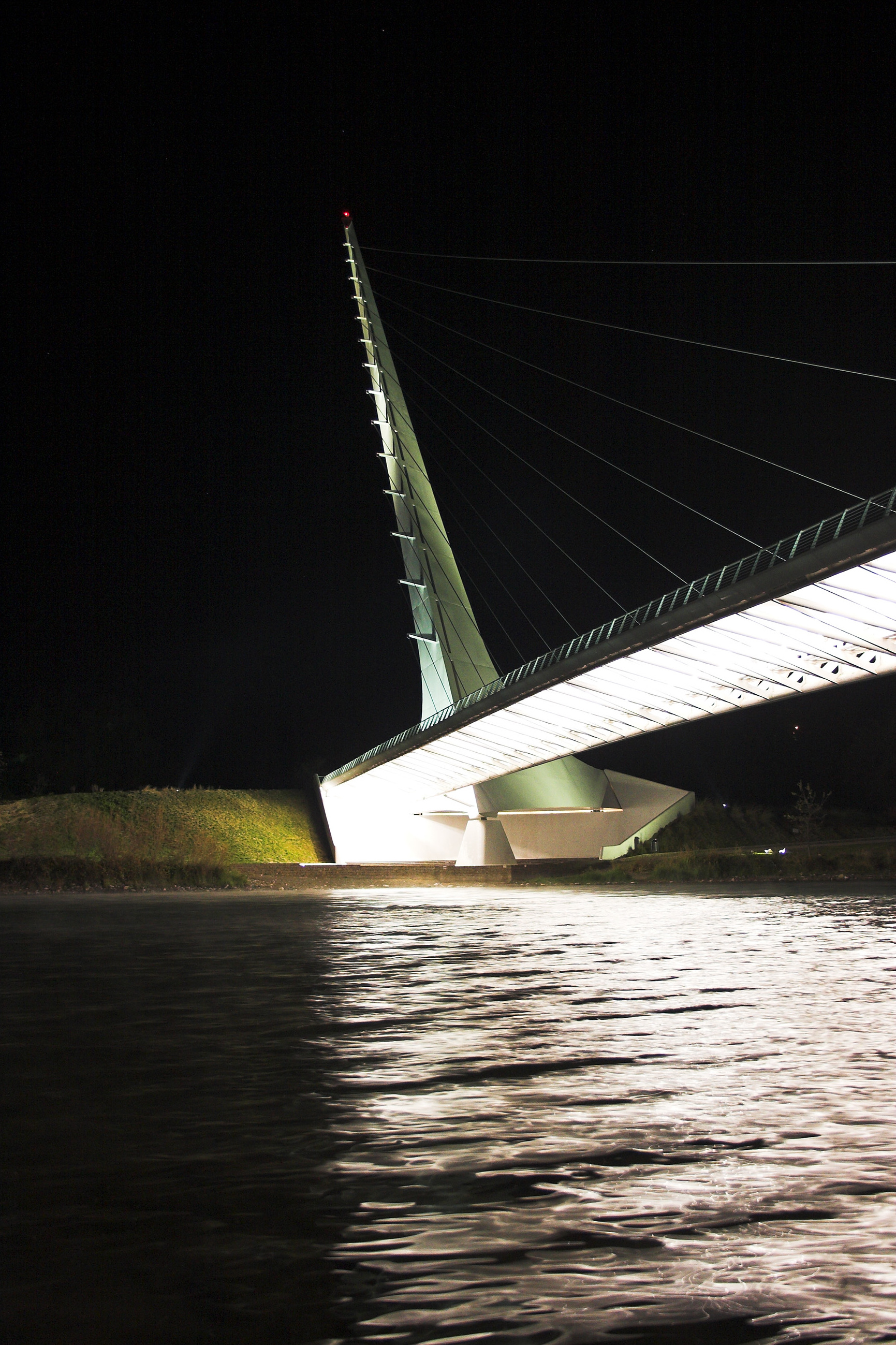 Sundial Bridge By: Nathan Soliz Location: Redding, California